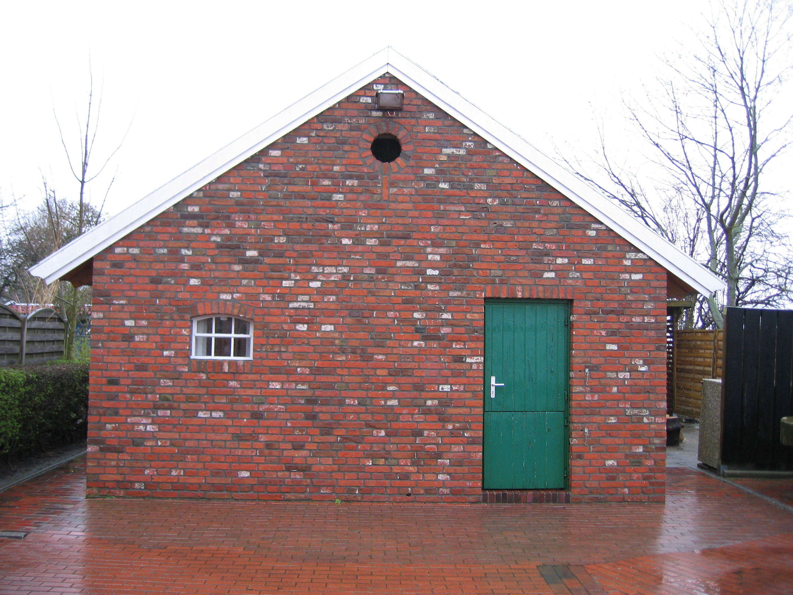 Bakery of the windmill in Accum